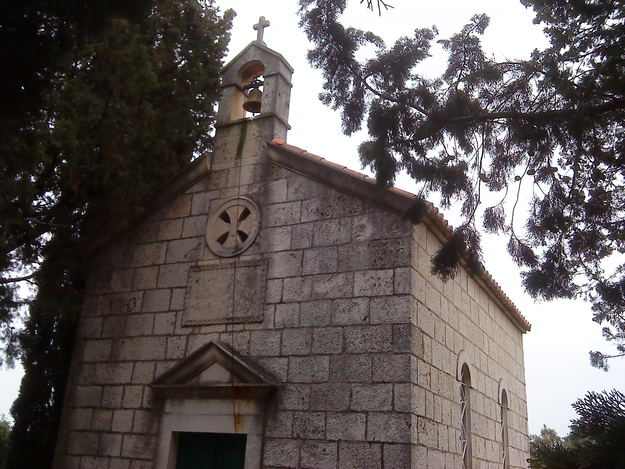 St. Roch church in Drače